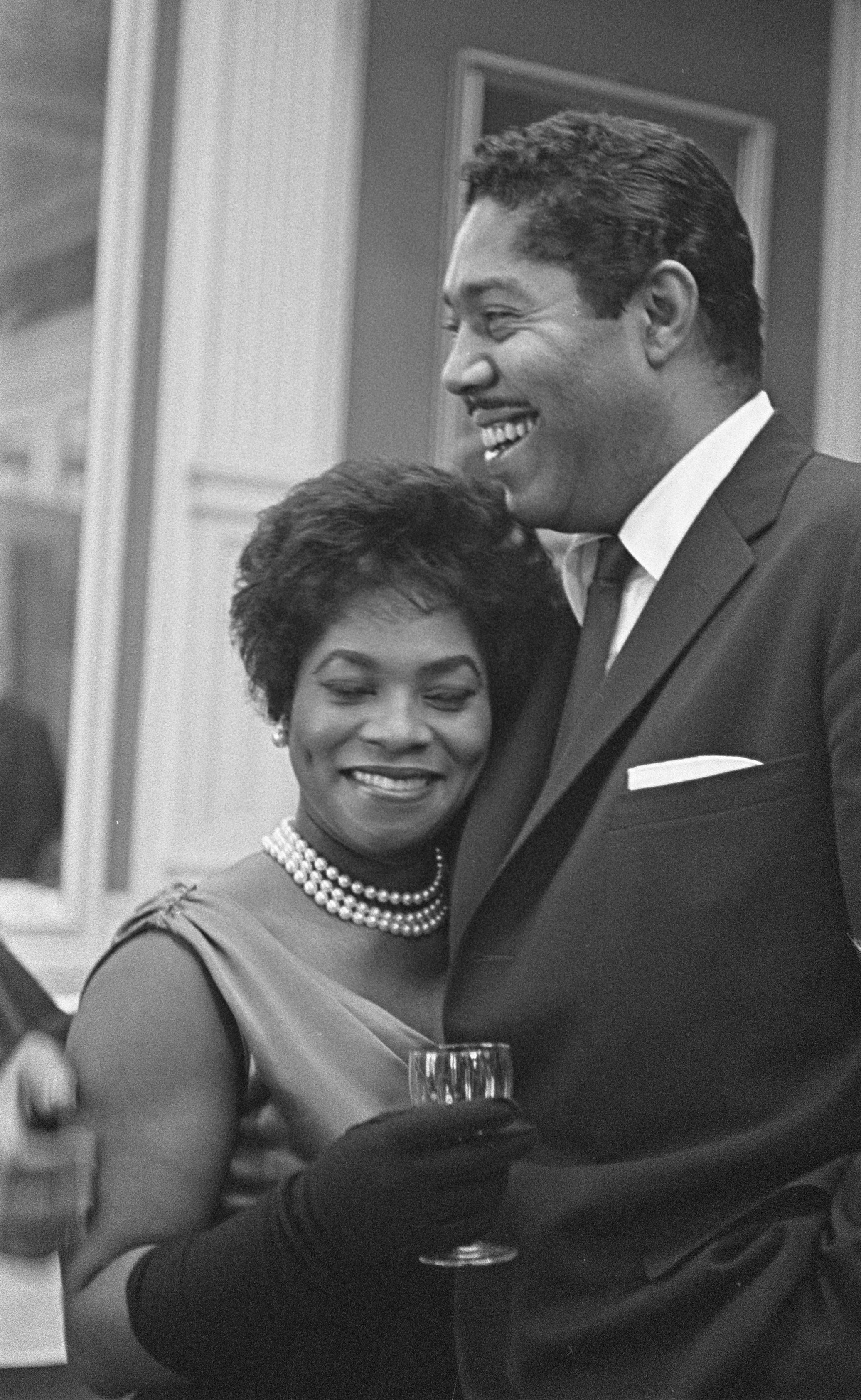 American actors Martha Flower and Paul Harris, Persconferentie "Free and Easy". Amsterdam, Dec. 1959